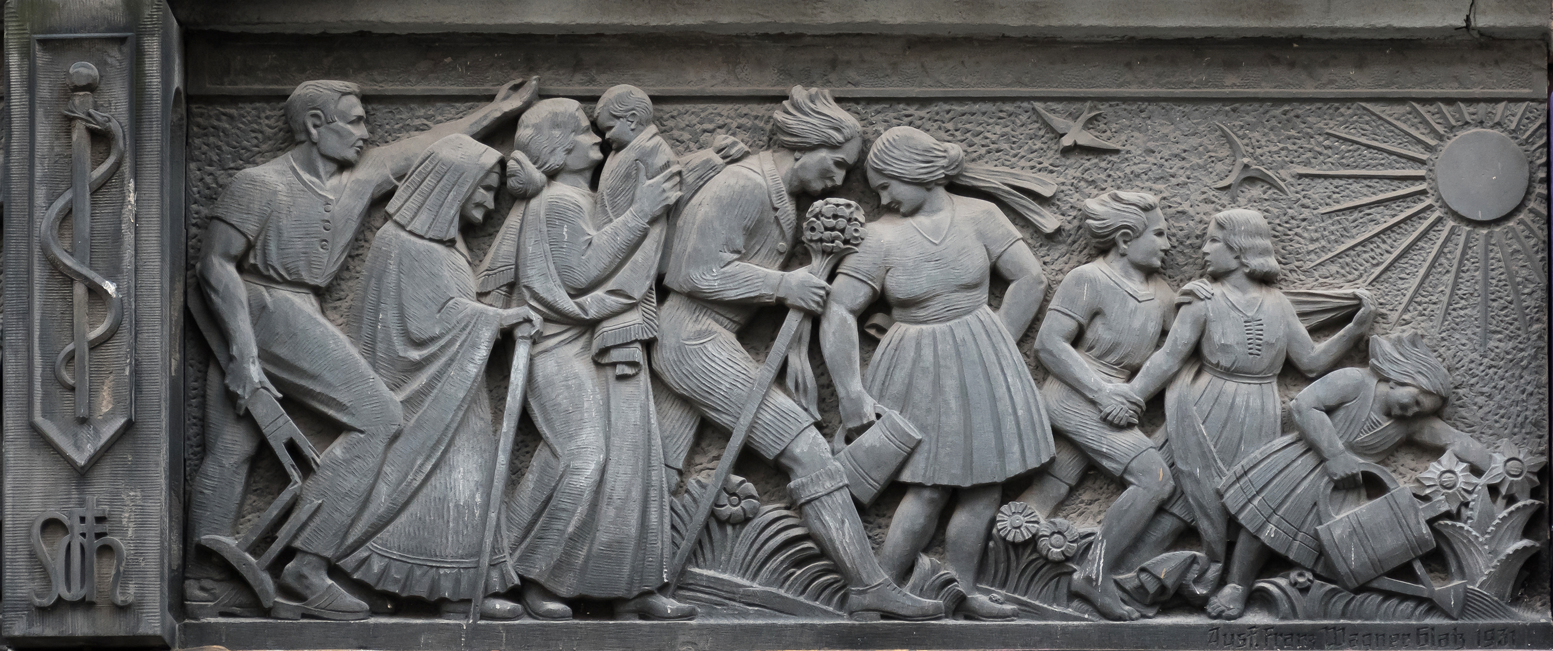 5 Piastów Street in Nowa Ruda